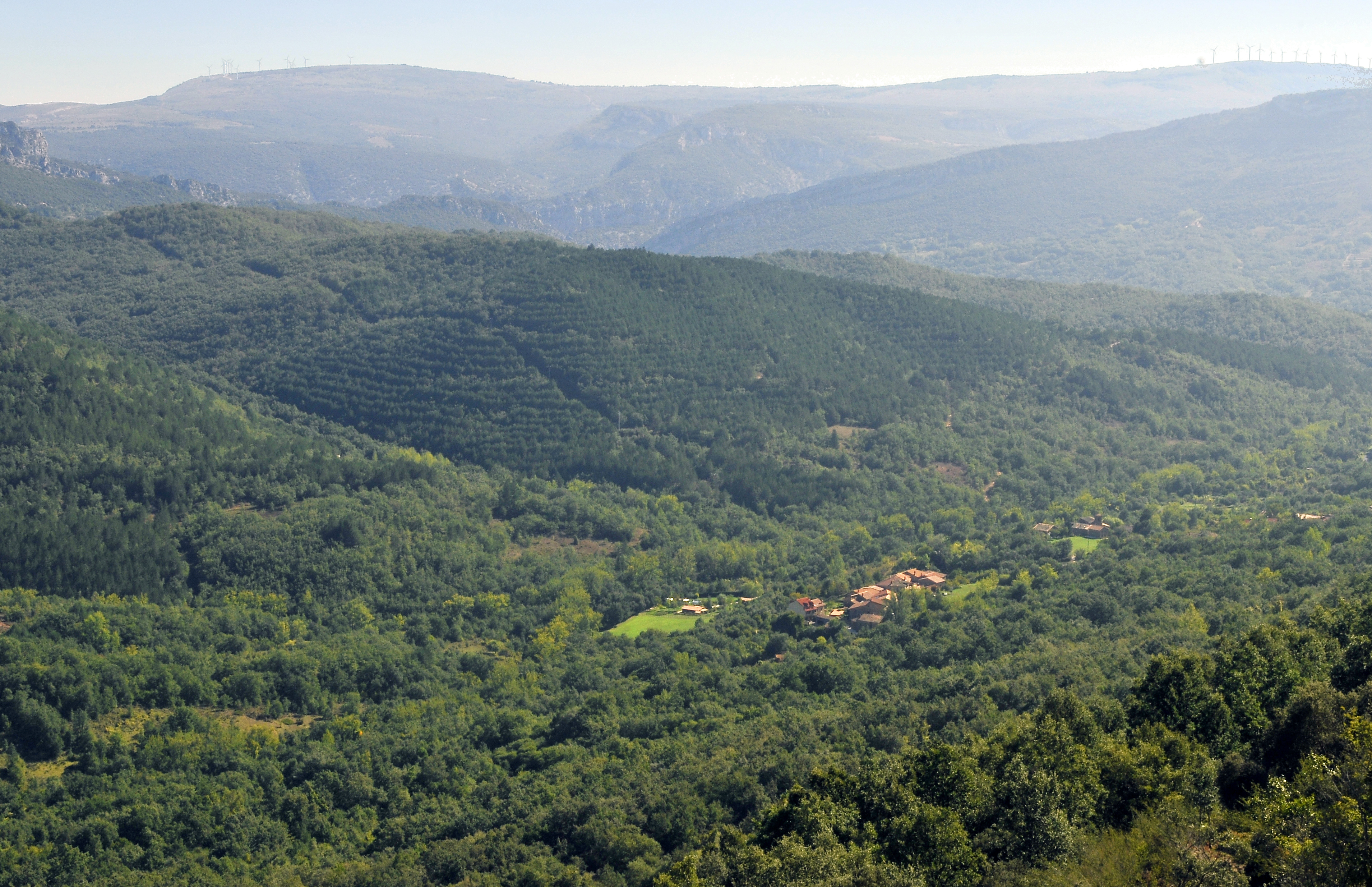 The village and its surroundings. Gallejones, Valle de Zamanzas, Burgos, Castile and León, Spain